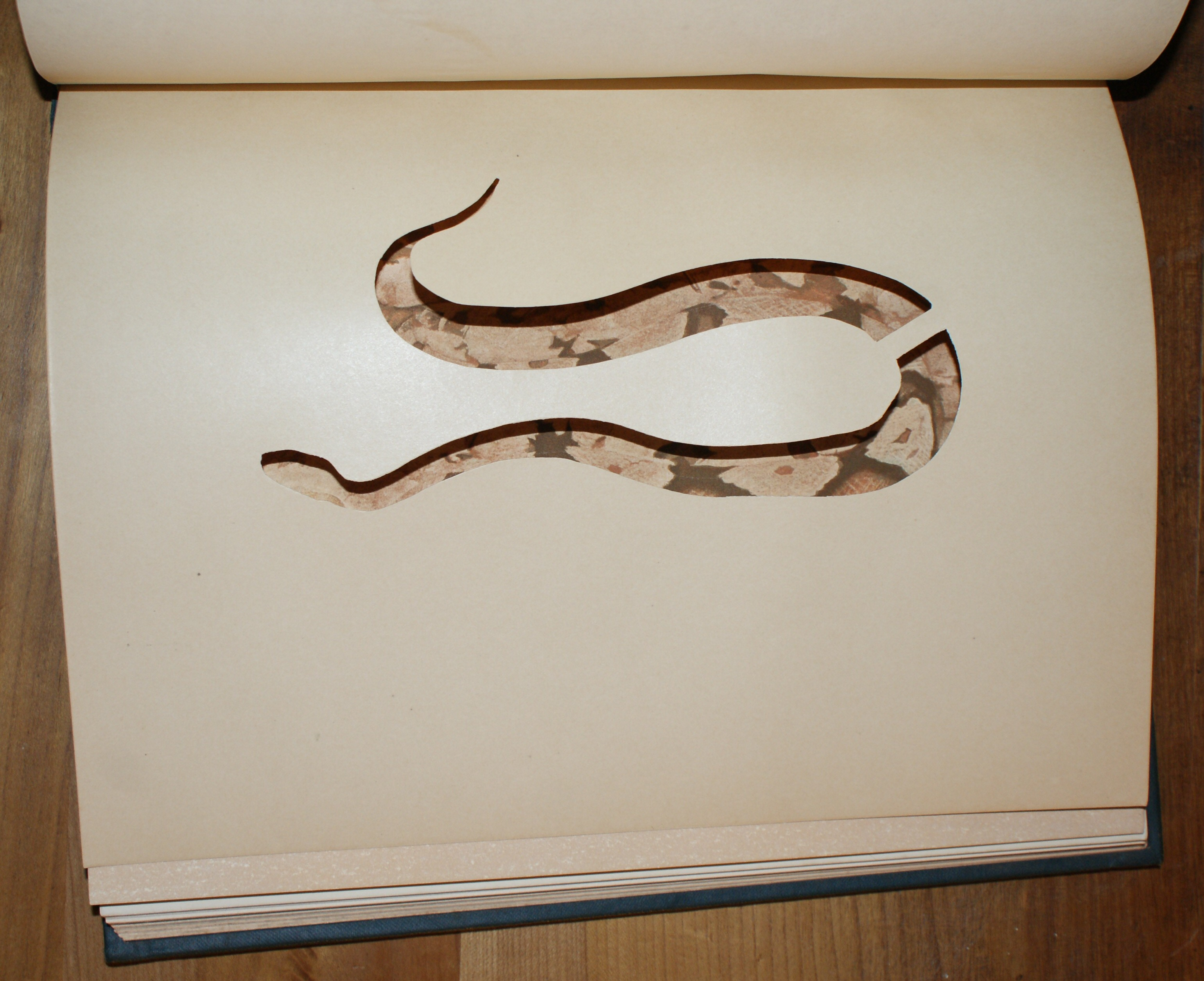 Copperhead Snake (Agkistrodon contortrix) - full-page card cutout in Concealing-Coloration in the Animal Kingdom, , 1909, to accompany Thayer's painting "Copperhead Snake among Leaves"